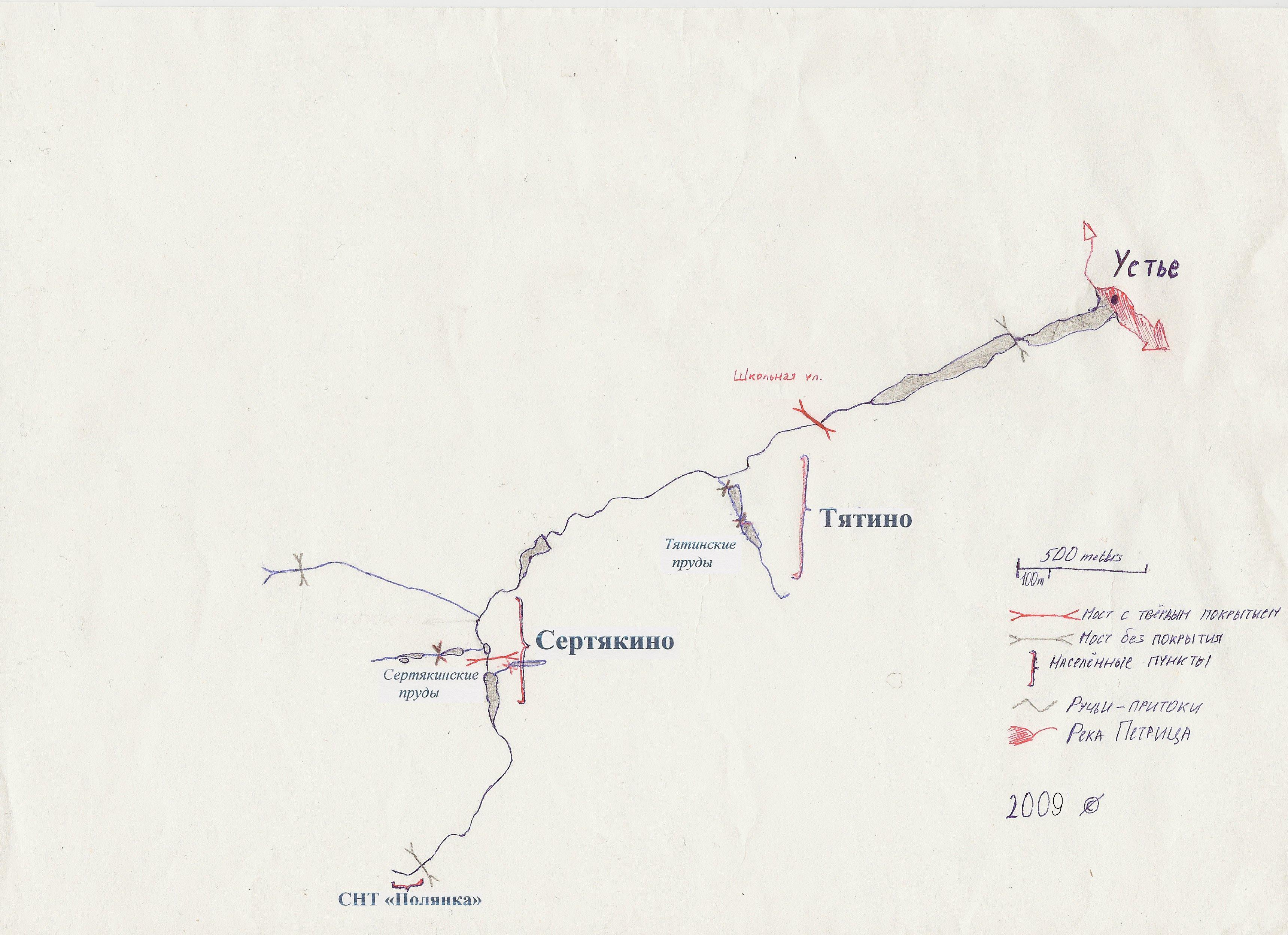 Rozhaj (Sosnovka) river, Russia near Klimovsk town.